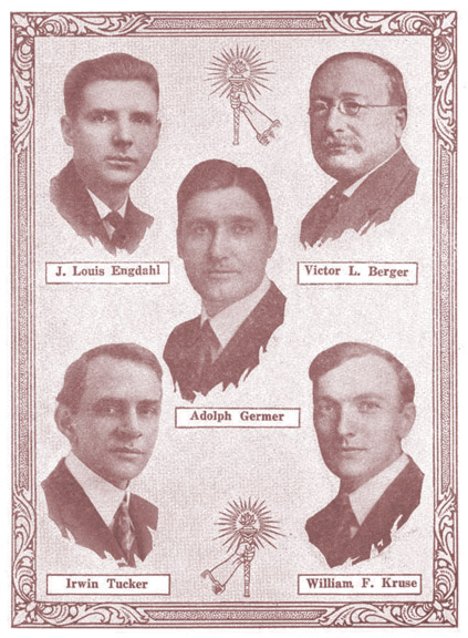 Socialist Party of America defendants of the trial of 1919. Adolph Germer, Victor L. Berger, William F. Kruse, J. Louis Engdahl, Irwin St. John Tucker